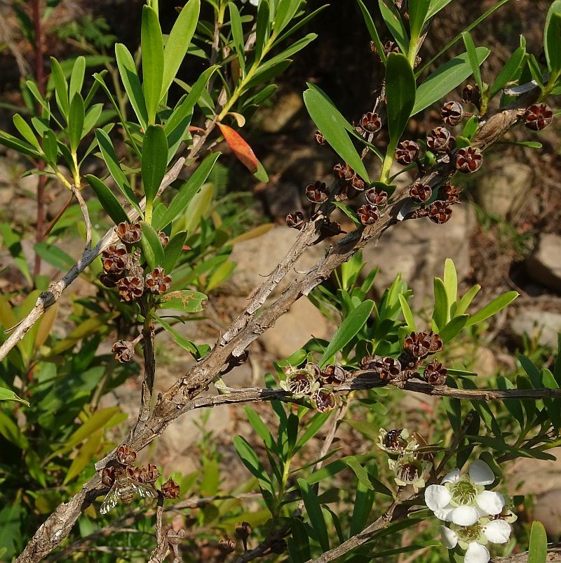 Fruit of Leptospermum emarginatum Near Numbugga, New South Wales